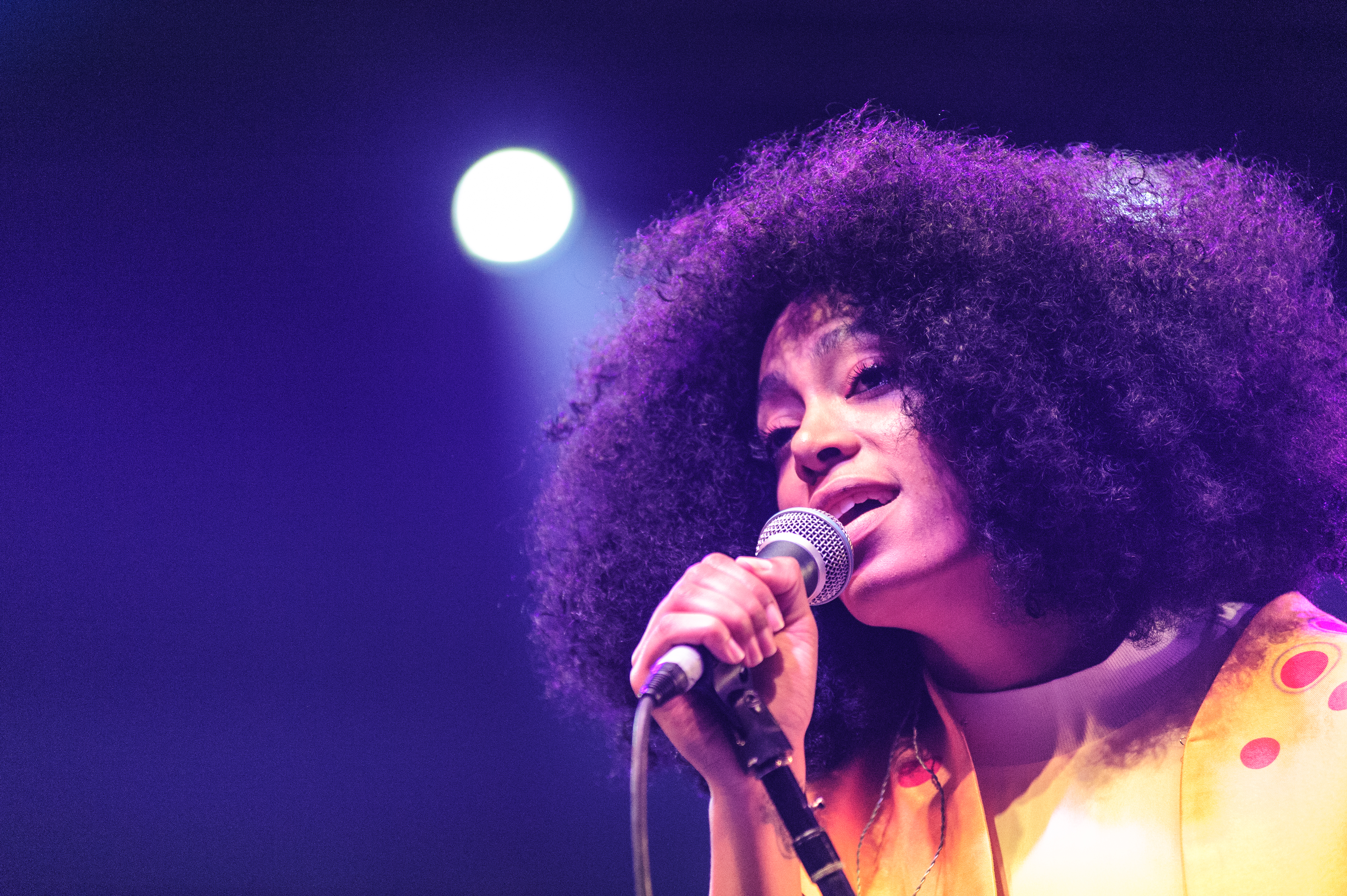 Solange performing at Coachella on April 19, 2014.